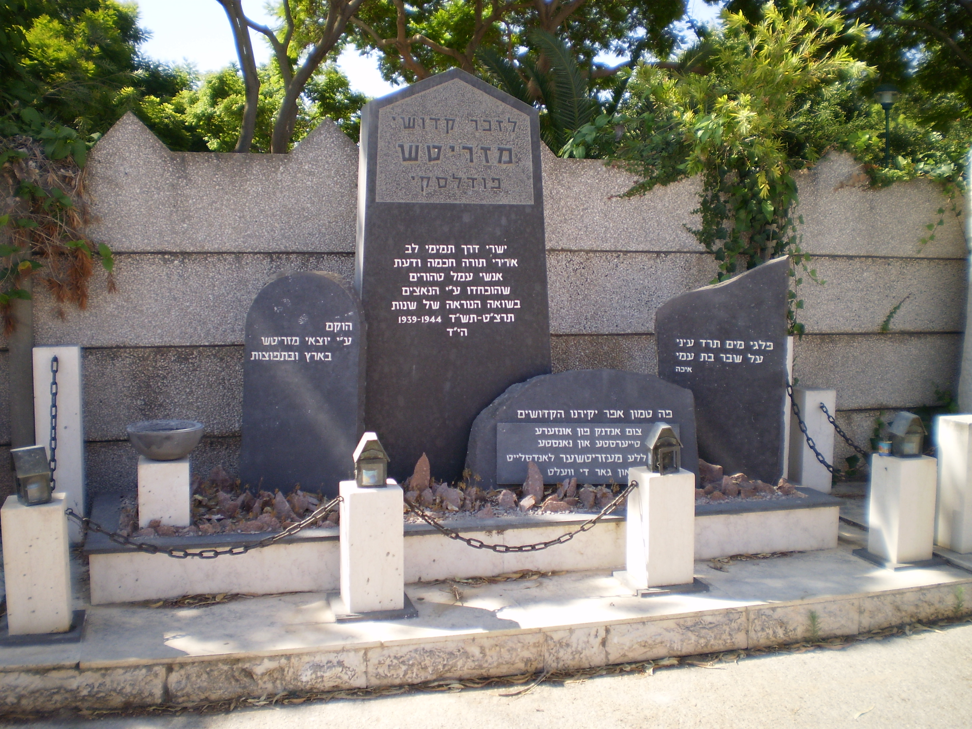 Międzyrzec Podlaski Jewery Holocaust memorial at Holon Cemetery